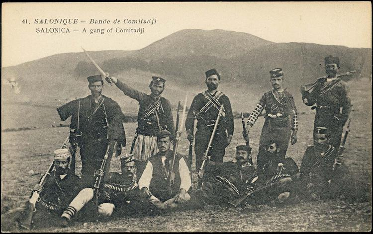 IMARO voivodas of Krushevo, 1903, during the Ilinden Uprising